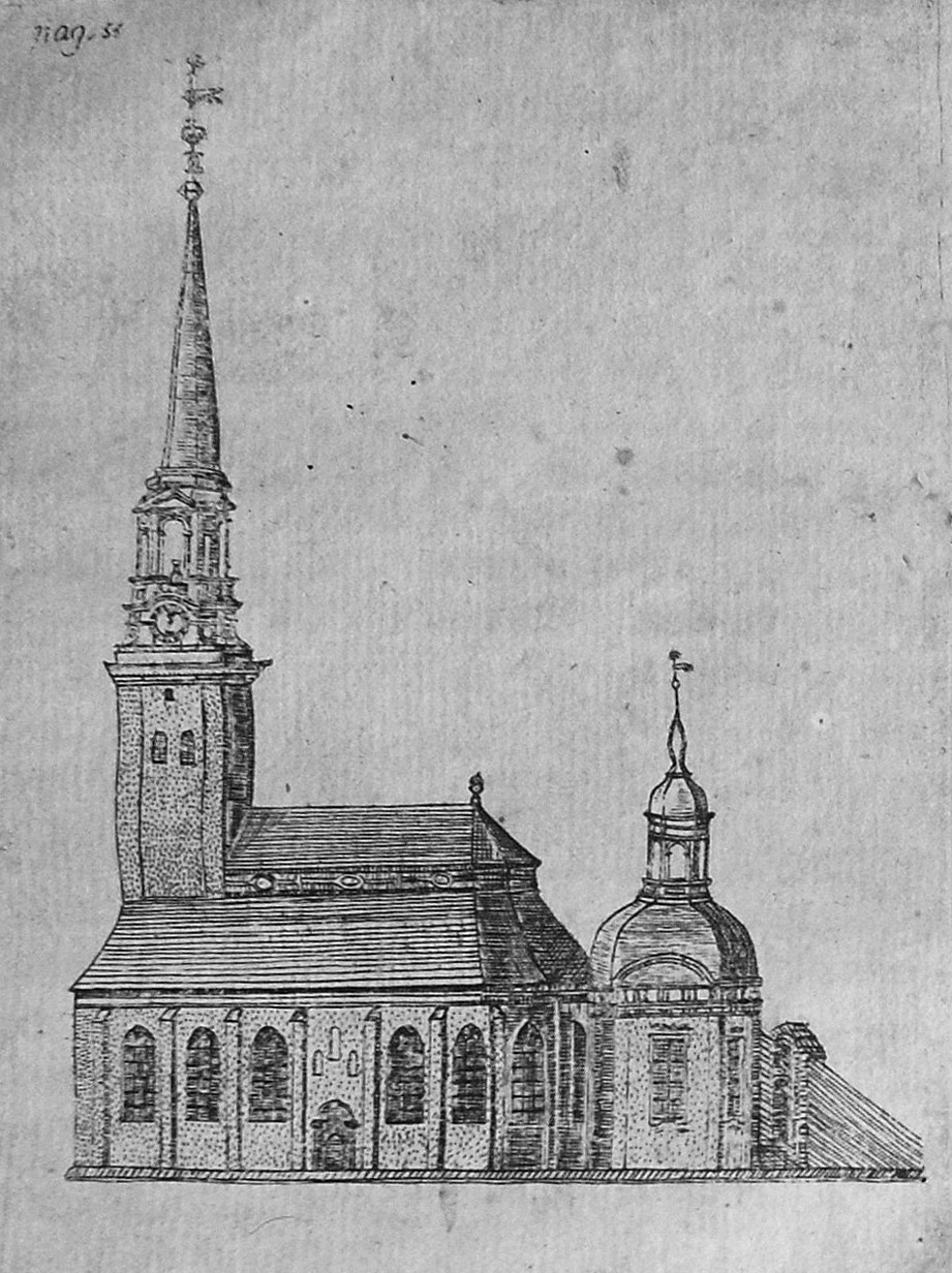 Illustration of the Christinæ church in Goteborg, Sweden. The illustration is taken from the book "En kort beskrifning Öfver Den wid Wästra Hafvet belägna wäl bekanta och mycket berömliga Siö-Handel-och Stapul-staden Götheborg Utur åtskillige trowärdige Historie-böcker, gamla Bref, Minnesmärken och andre tilförlåtelige Bewis, både med nöje och flit sammanletad" by Eric Cederbourg, from 1739